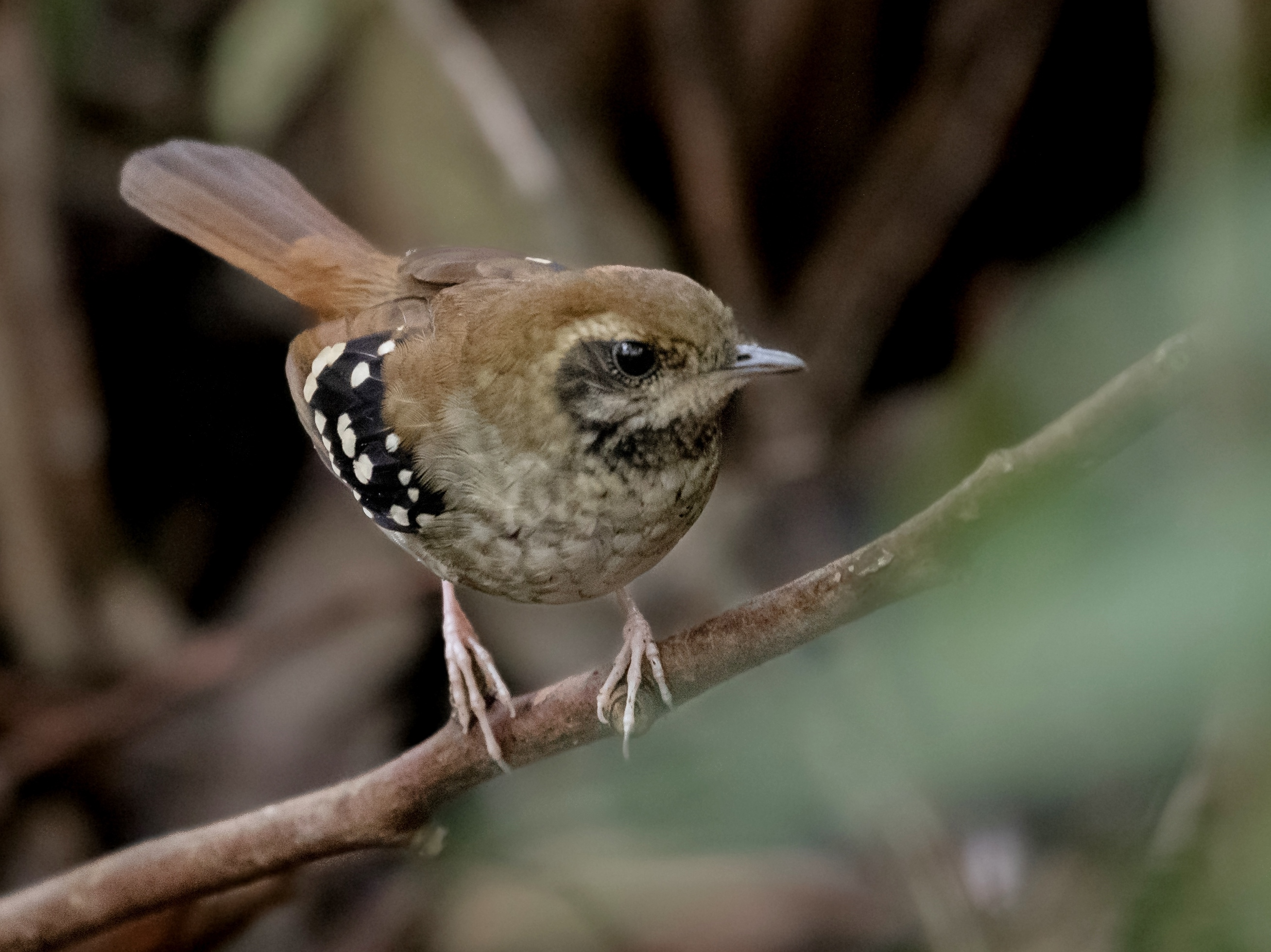 Squamate antibird (female); Tremembé, São Paulo, Brazil